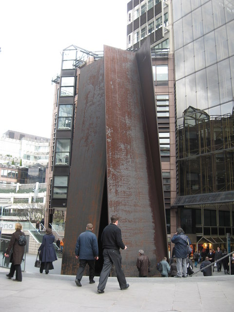 Fulcrum, Broadgate Estate, London The Fulcrum is a freestanding sculpture of Cor-ten steel near Liverpool Street station, London by Richard Serra, an American minimalist sculptor. It stands 55ft high and was unveiled in 1987.